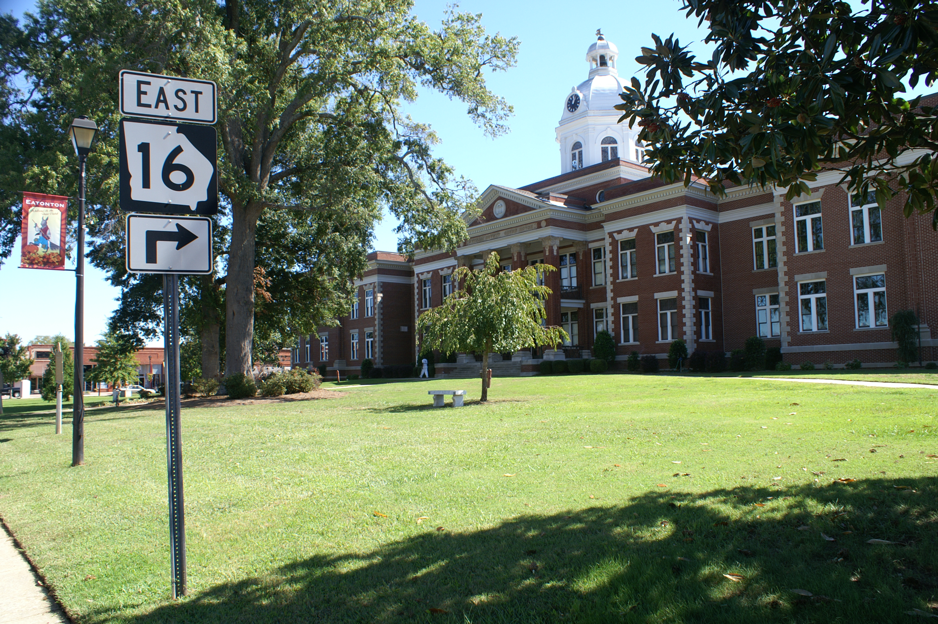 Putnam County Courthouse